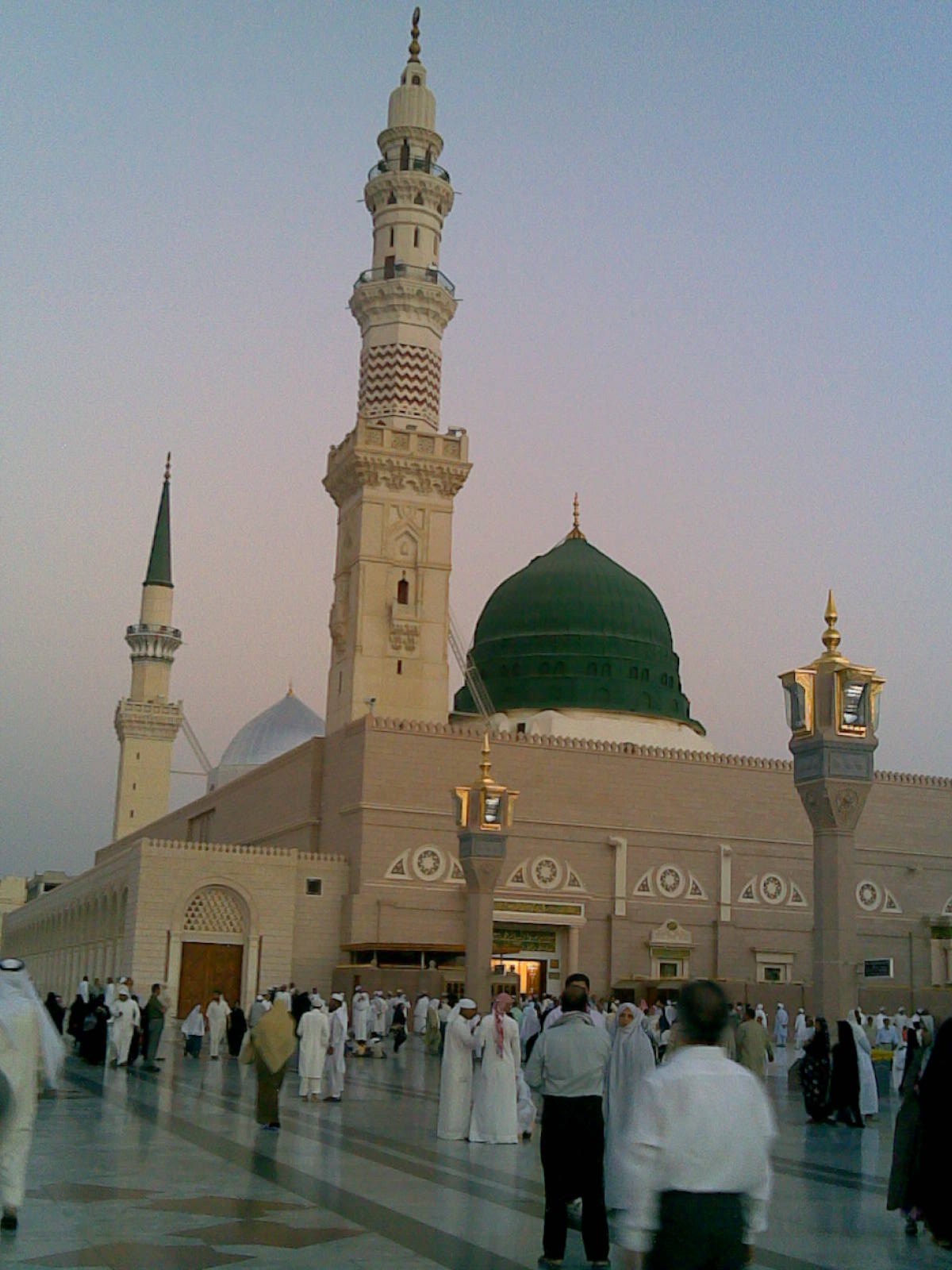 Green Dome of Al-Masjed Al-Nabawi